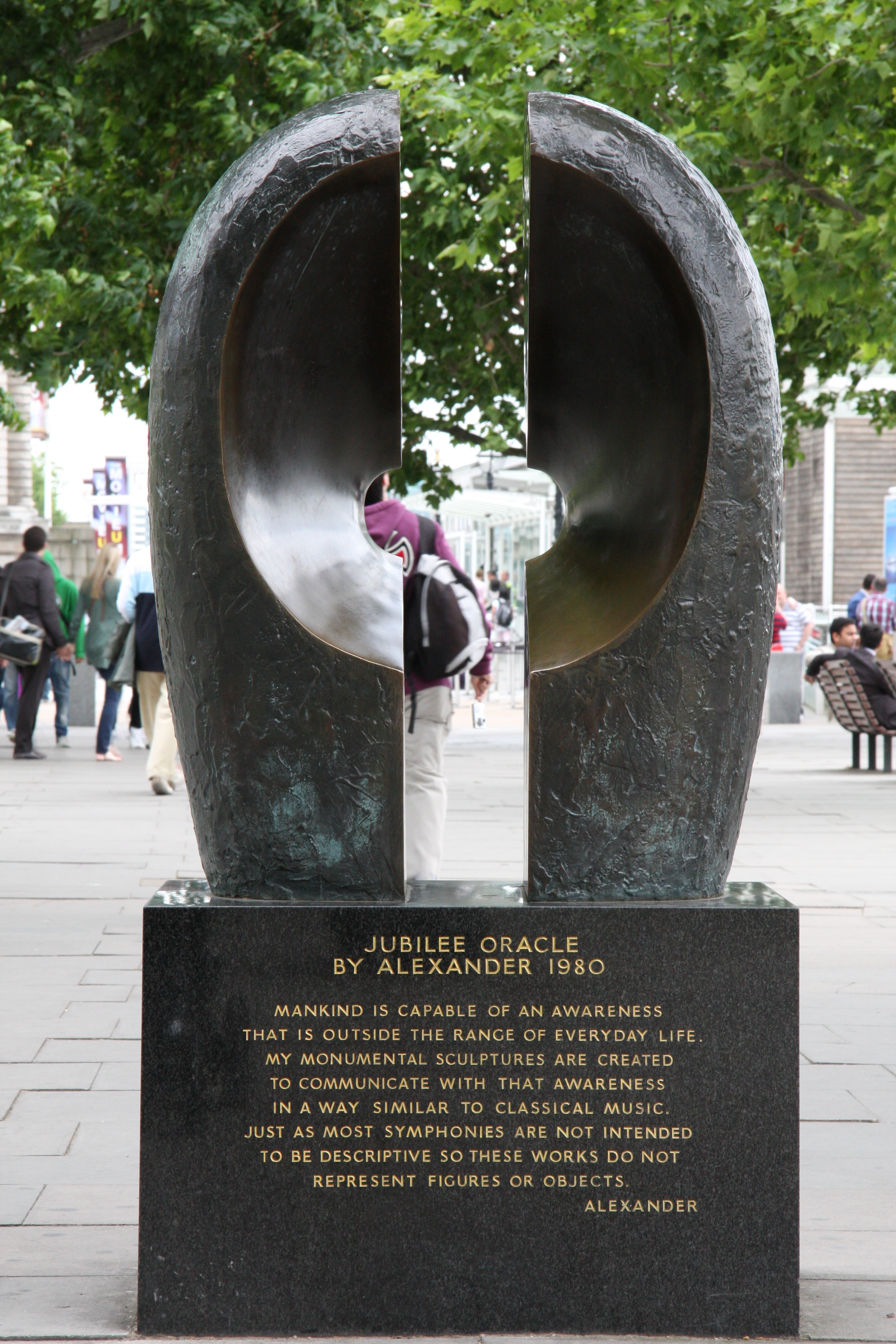 Sculpture Jubilee Oracle (1980) by Alexander in London/UK, June 2009